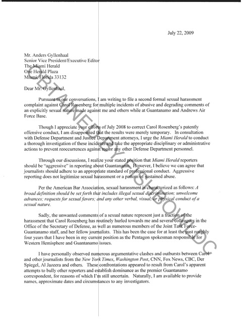 Commander Jeffrey Gordon, a military spokesman in Guantanamo, complained that a reporter had been sexually harrassing him.